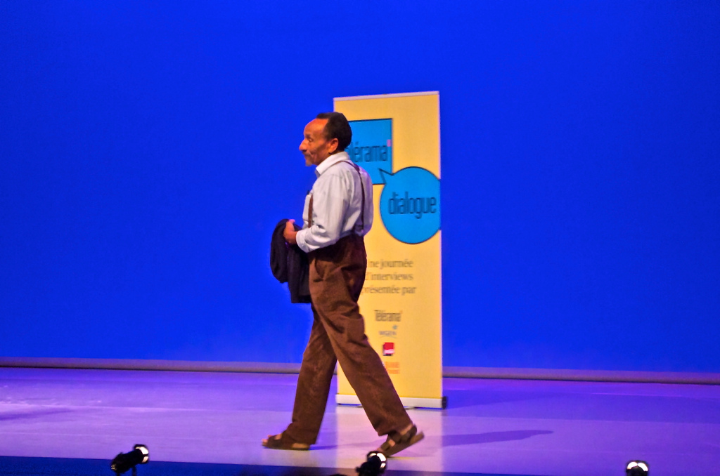 Farmer, philosopher and essayist French of Algerian origin, inventor of the concept of "Oasis in all places." He advocates a more respectful way of human society and the earth and supports the development of sustainable agricultural practices preserving the environment and natural resources, agro-ecology, especially in arid countries One of his quote "We see themselves up generations of children who, for lack of an awakening to life, are reduced to mere insatiable consumers jaded and sad. "